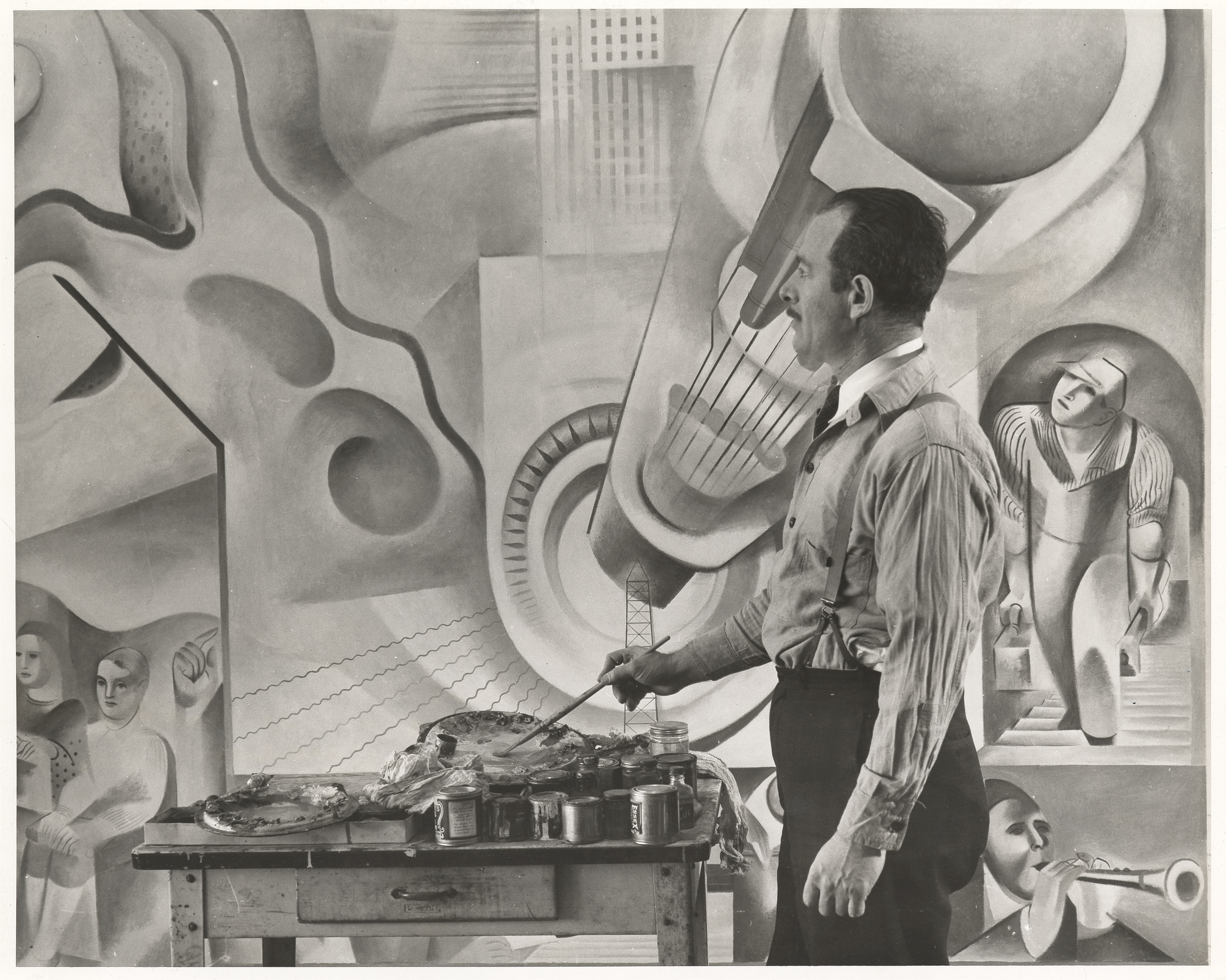 Ferstadt standing in front of mural for WPA Federal Art Project. Identification on verso (handwritten and stamped): Federal Art Project W.P.A.; Photographic Division; 110 King Street; New York City Negative No: 3630-2; Date: 1/25/39; Photographer: S. Horn; Artist: Mr. Ferstadt, mural artist, taken at 66 Second Ave, N.Y.